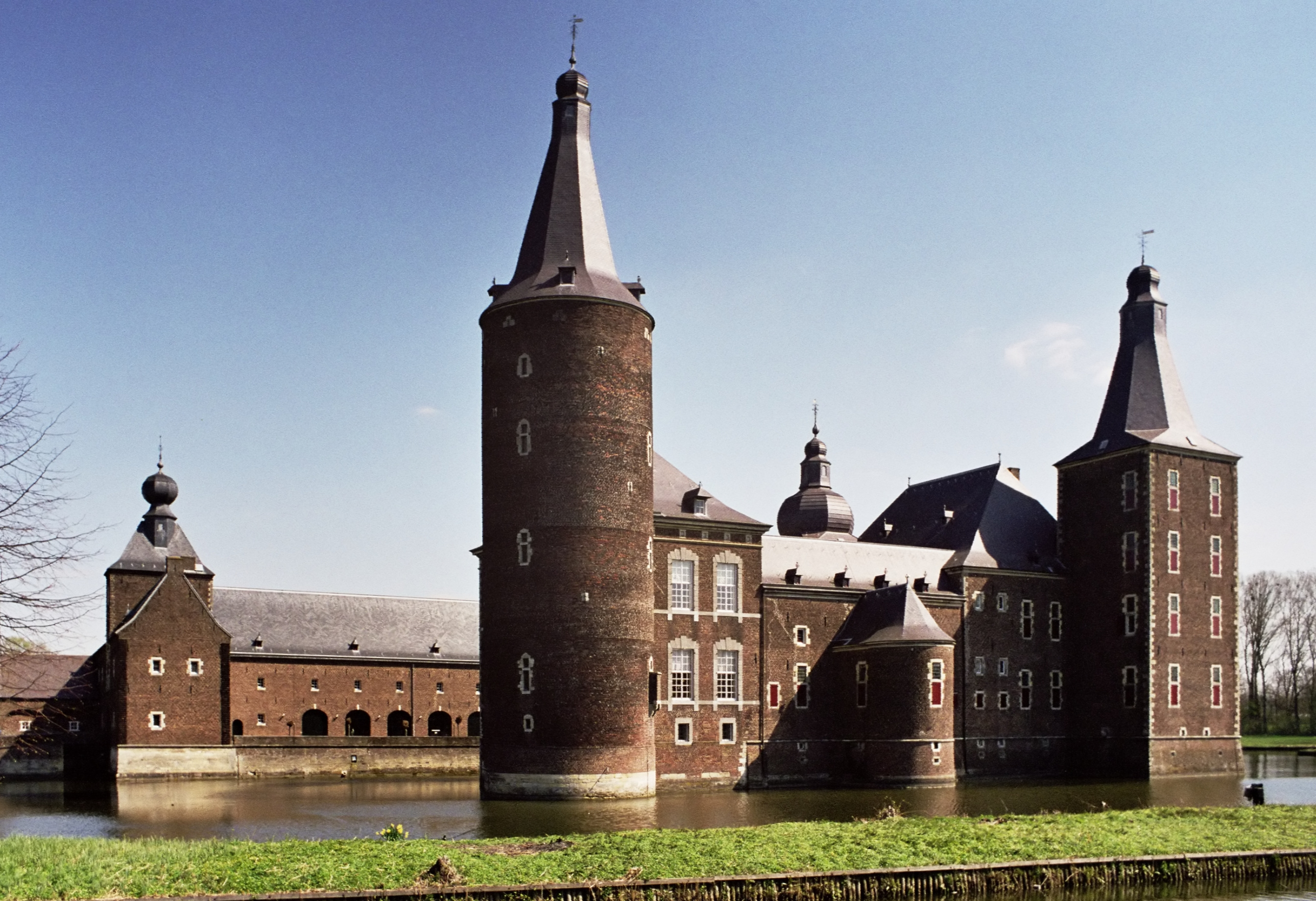 Hoensbroek Castle in Heerlen, south-western aspect